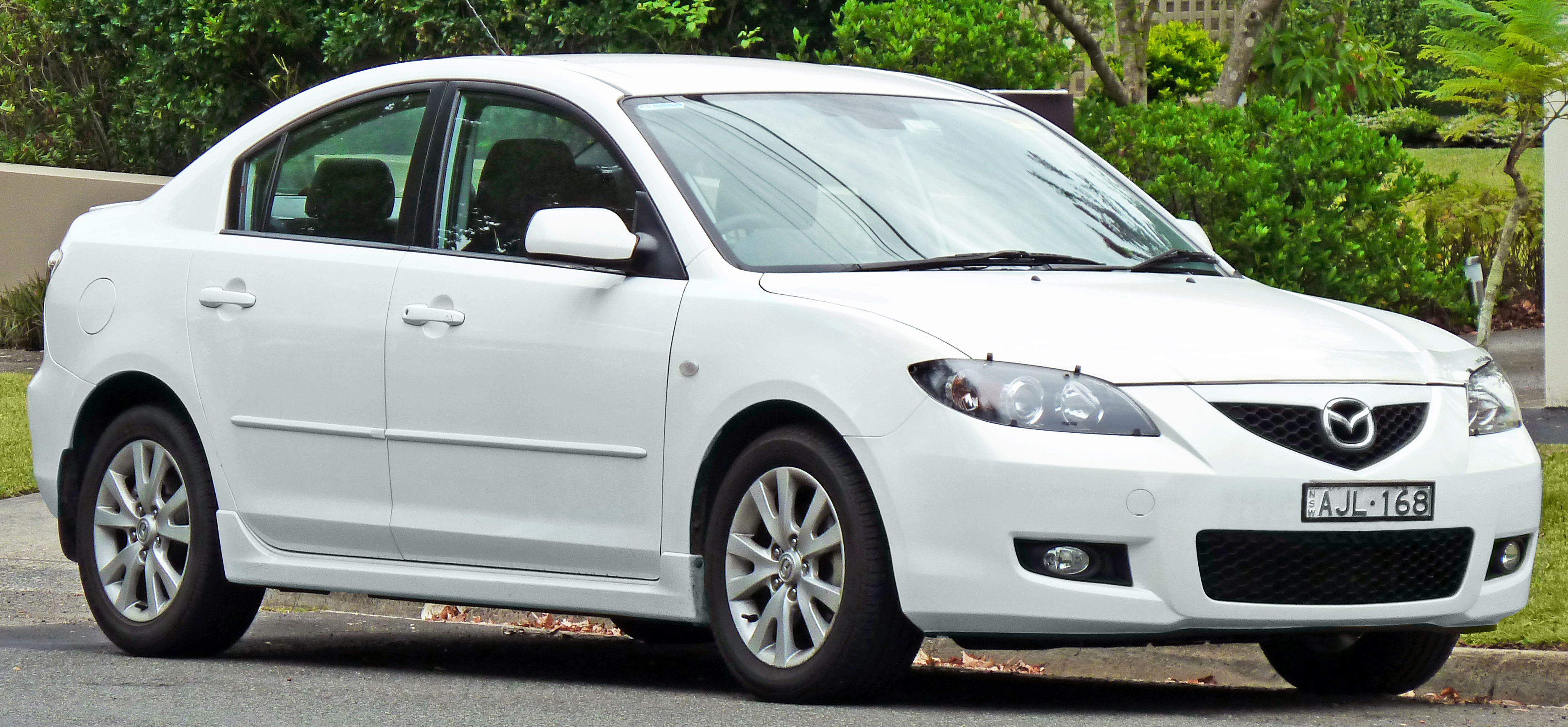 2006–2008 Mazda3 (BK Series 2) Maxx Sport sedan. Photographed in Lindfield, New South Wales, Australia.